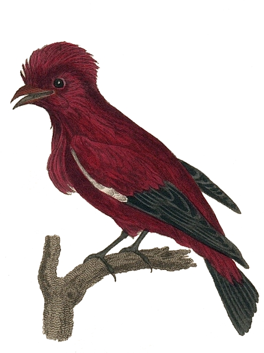 Haematoderus militaris